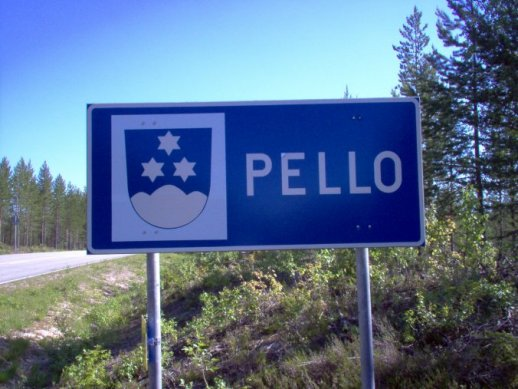 Municipal border sign of Pello, Finland